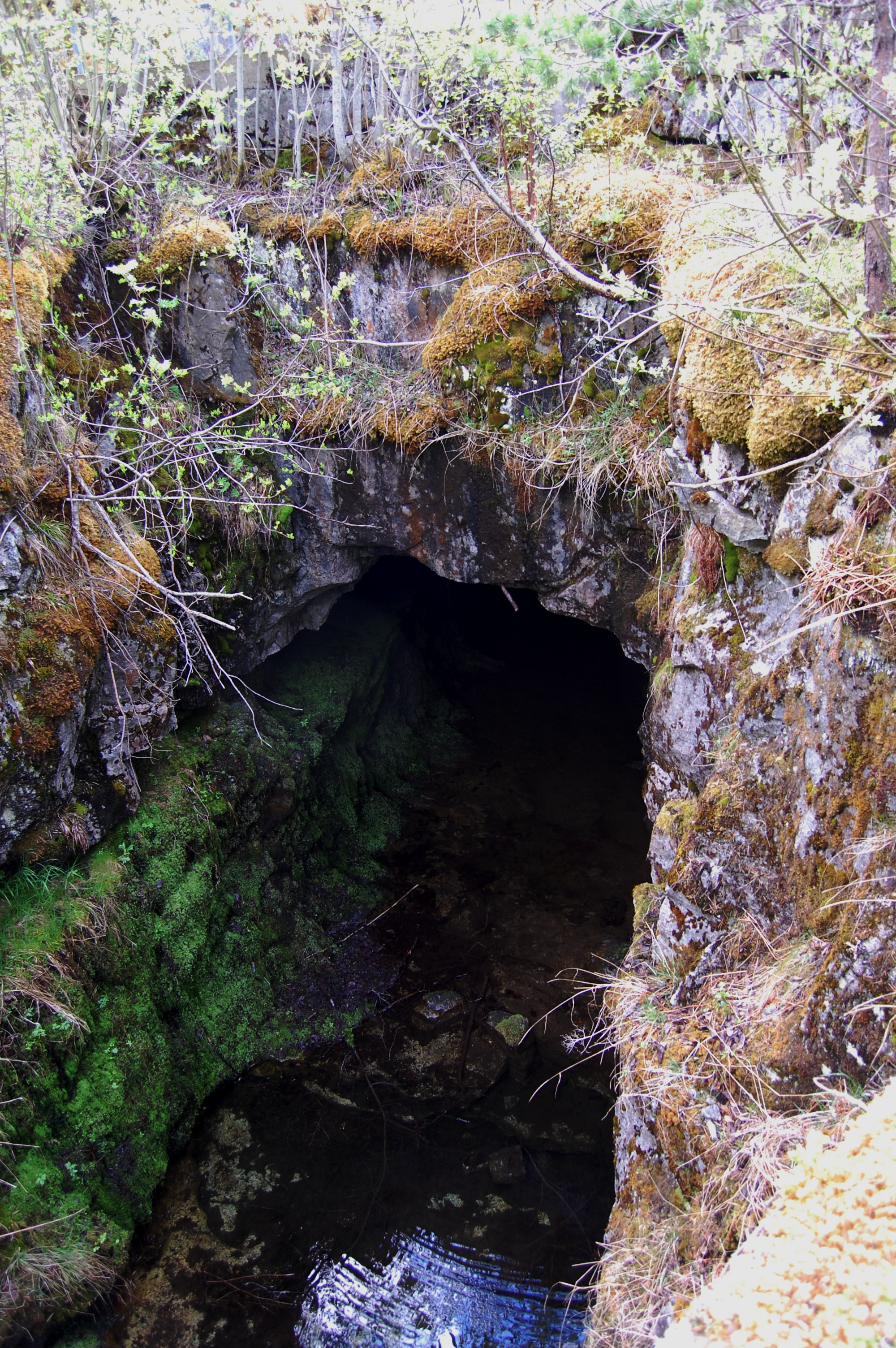 Tyssedal, Skjeggedal